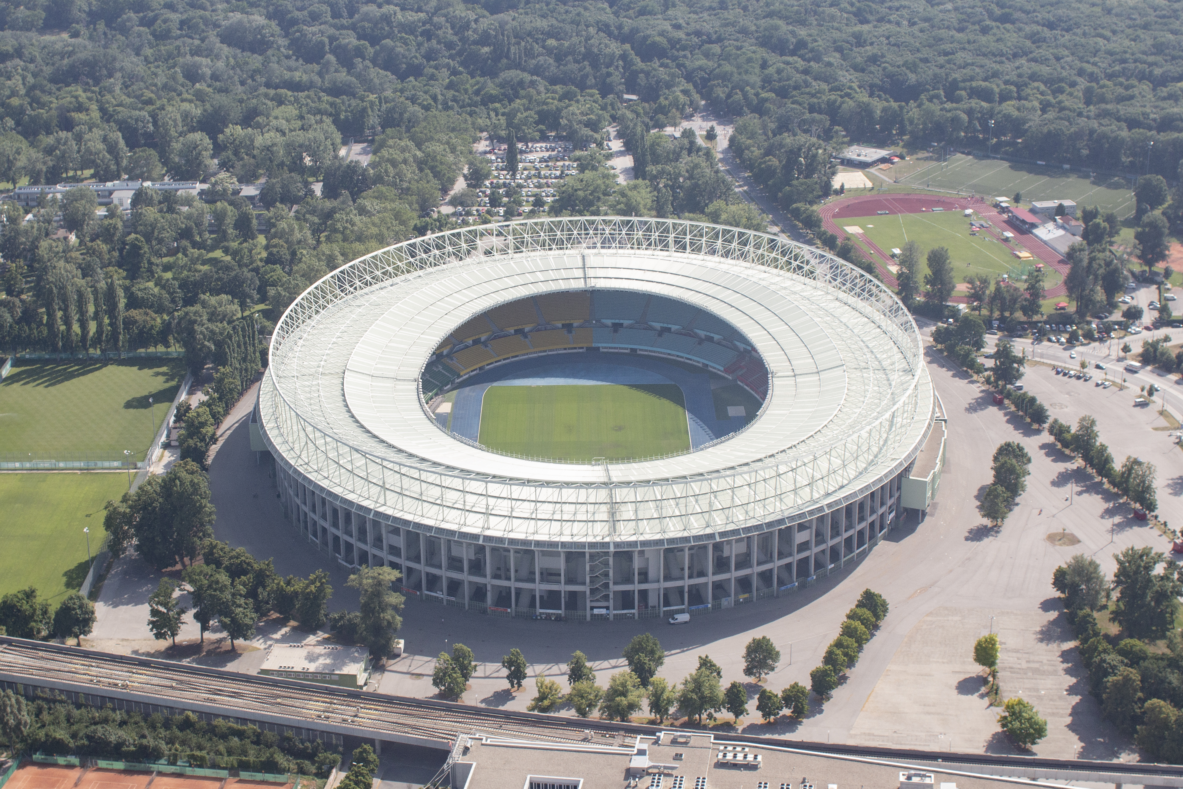 Aerial view of Ernst-Happel-Stadion, Vienna, Austria